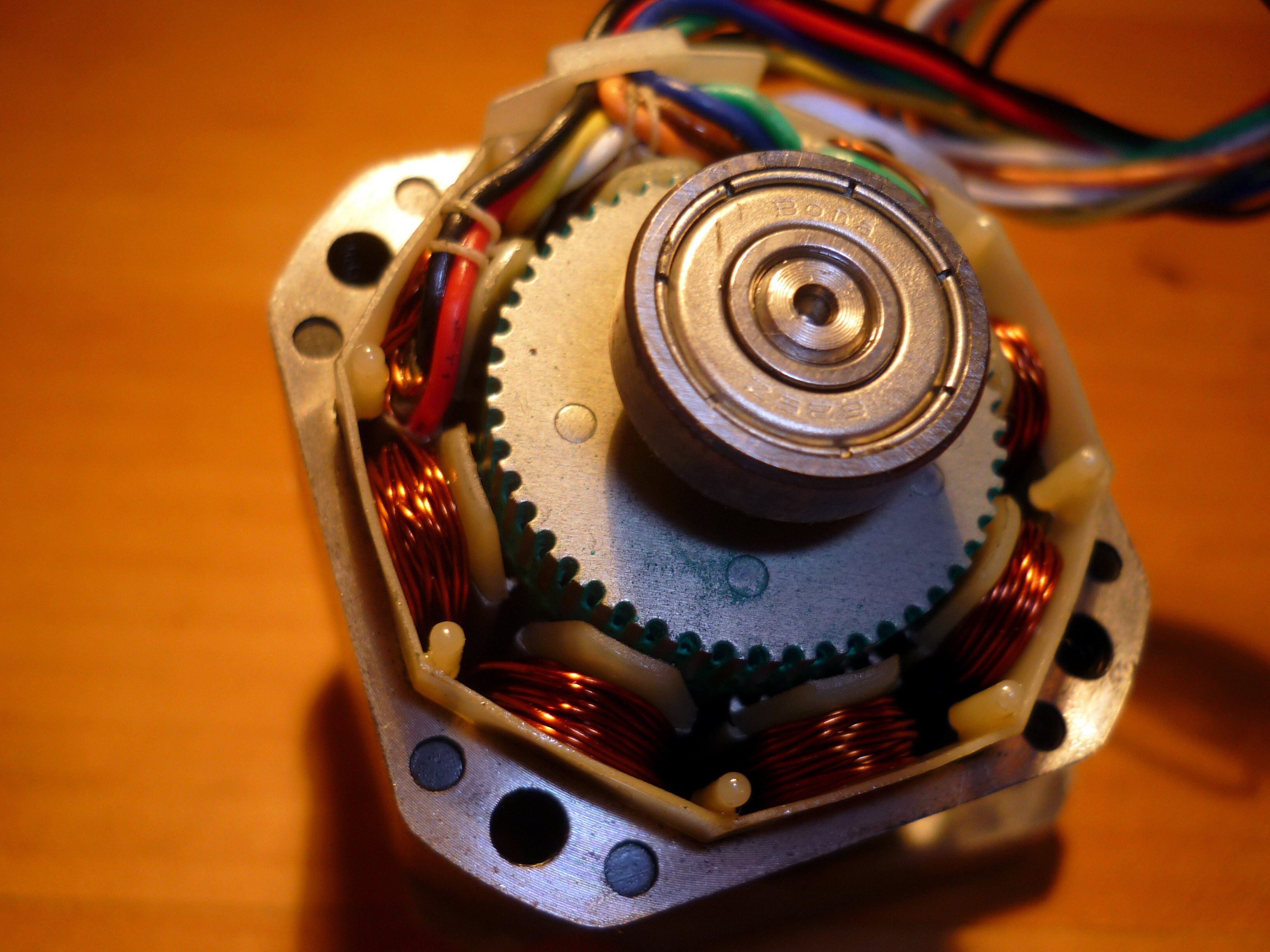 Stepper motor MICROCON SX17-1705; 1.8°; 0.5Nm; 1.7A; 0.35kg